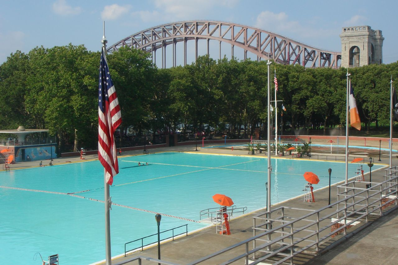 Astoria Park pool, Queens NYC